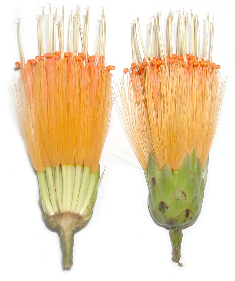 Stifftia chrysantha involucre